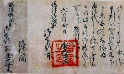 A letter (1471) written in Kana and Kanji from Kanamaru (King Shō En, 1415-1476) of Ryūkyū Kingdom to Shimazu clan.